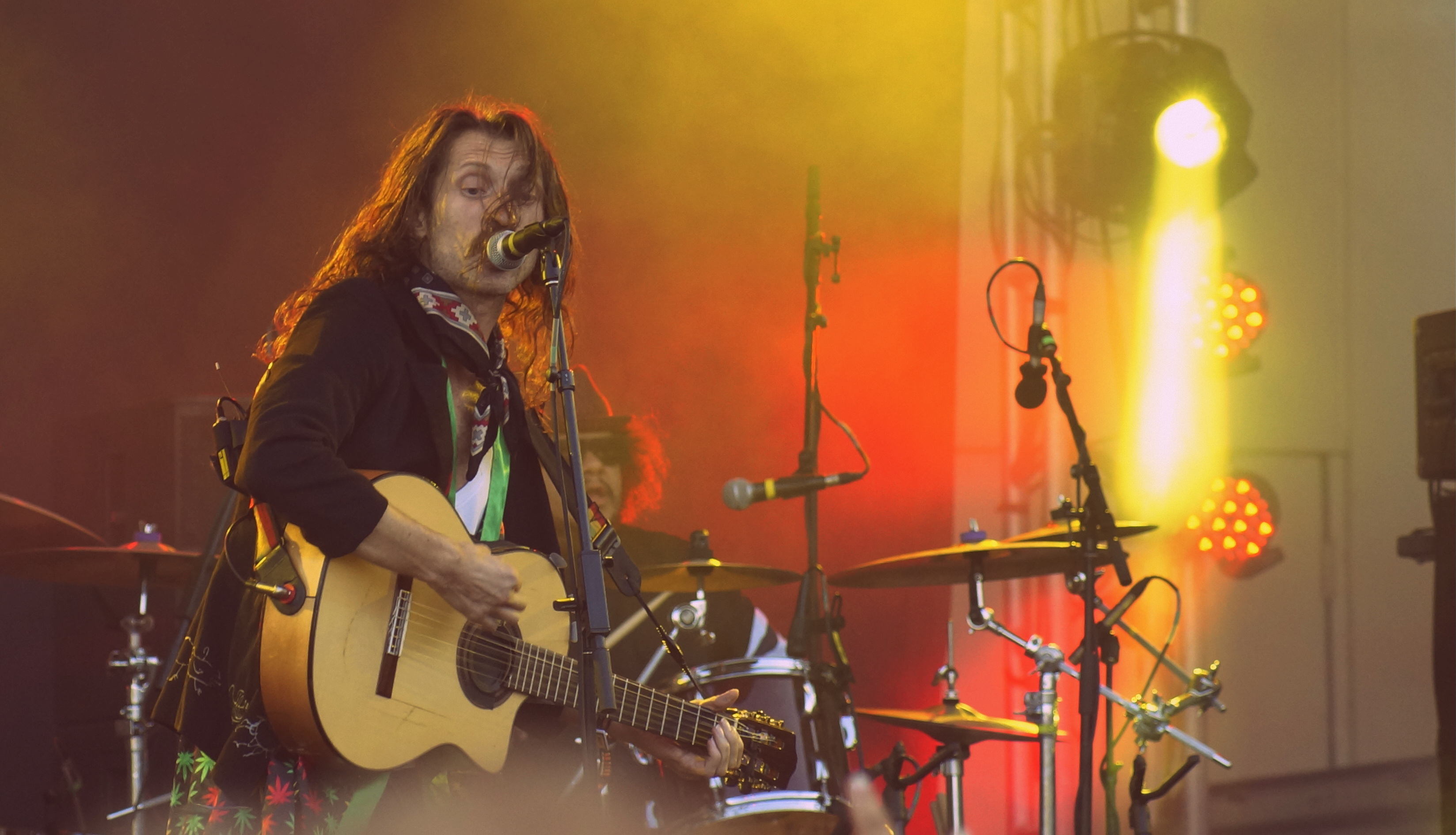 Eugene Hütz, lead singer and founder of Gypsy-Punk band "Gogol Bordello" perfoming at Lollapalooza 2015. More freely usable Lollapalooza 2015 Pictures.